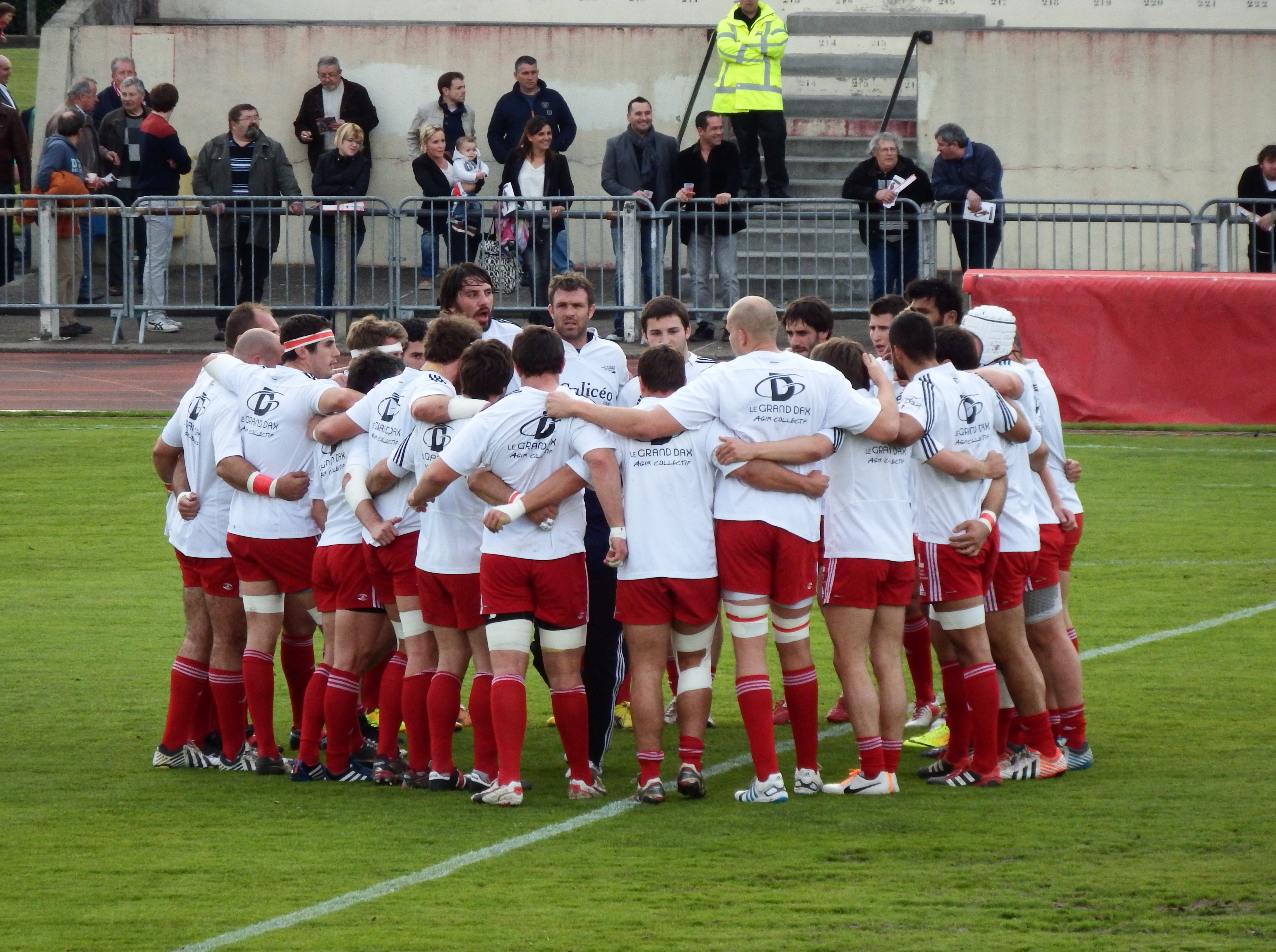 Pro D2 2013-2014 — 29 March 2014, Stade Maurice Boyau. Match between: US Dax — US Carcassonne